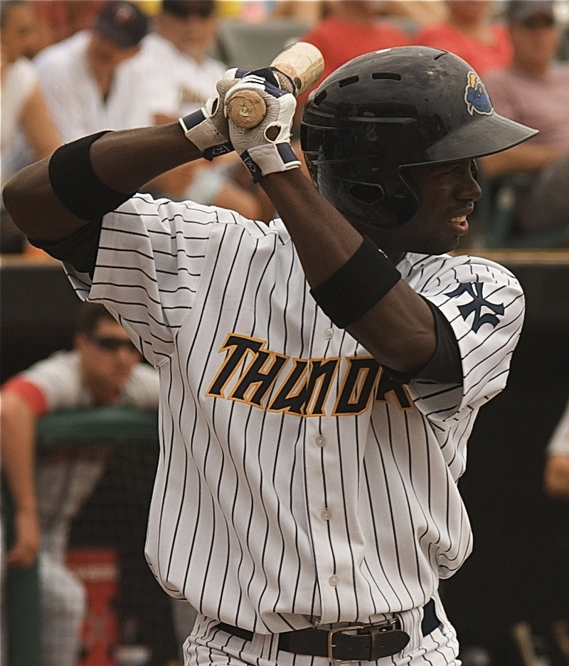 New York Yankees prospect Melky Mesa playing for the Trenton Thunder, 2012.